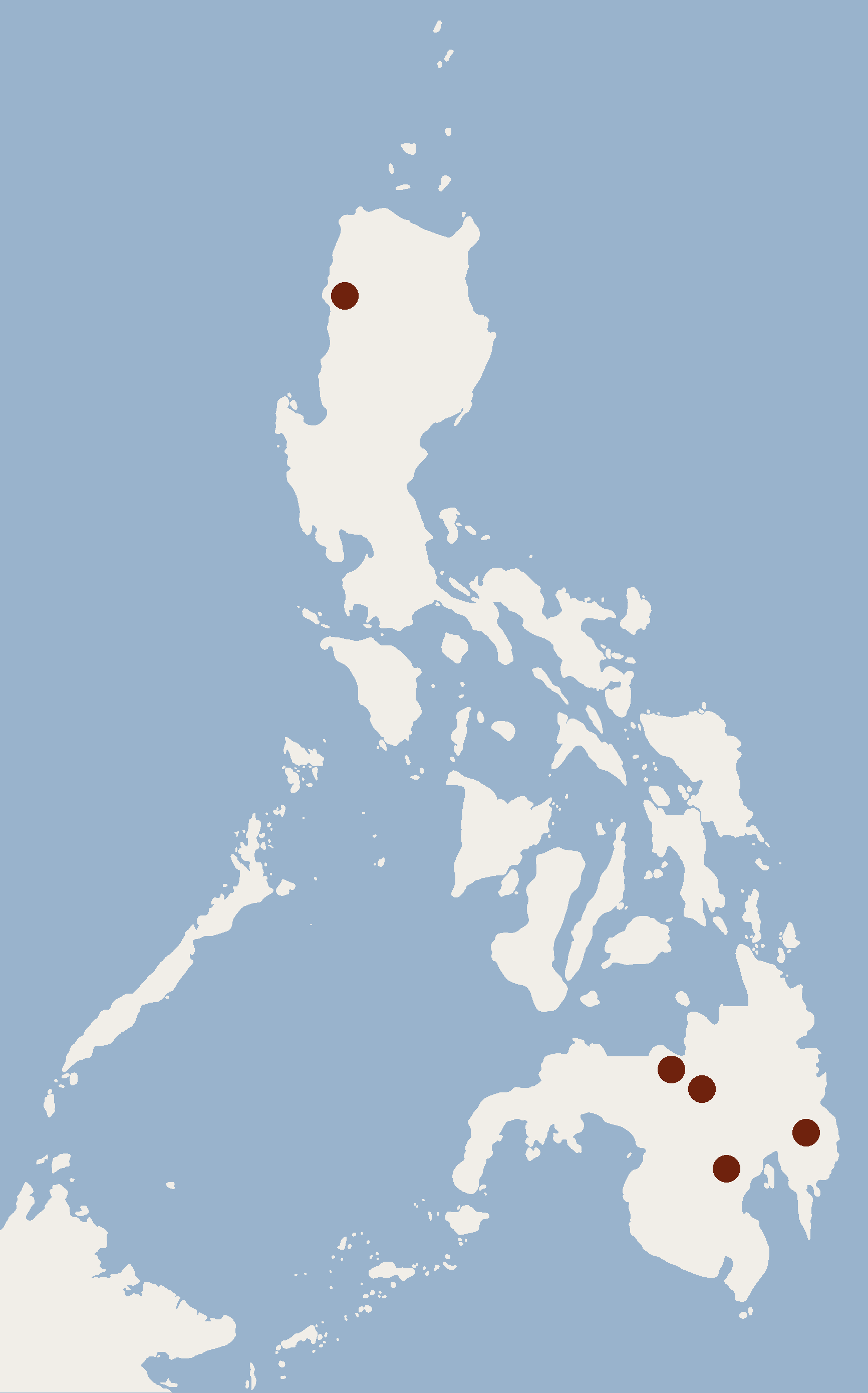 According to Helgen & al., 2007